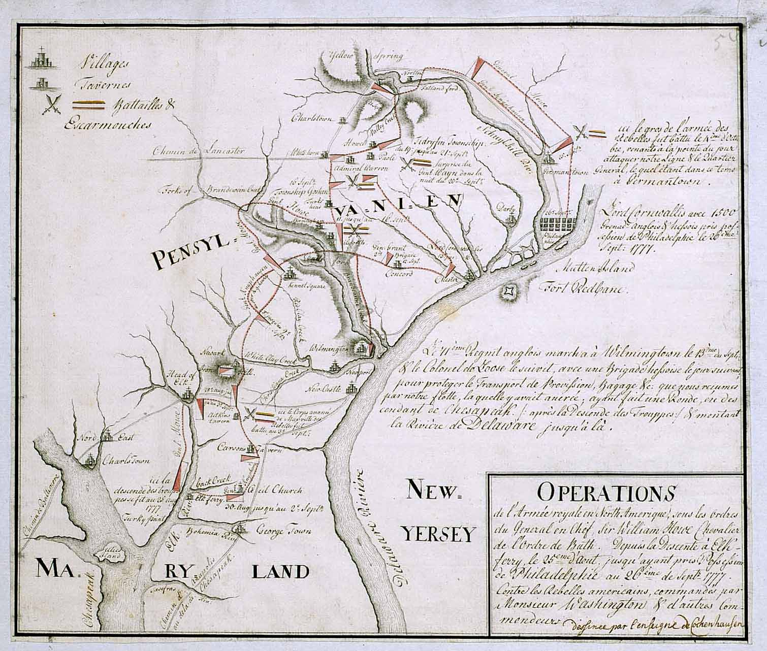 18th century Hessian map from the Marburg State Library in Germany of the Philadelphia Campaign (Battle of Brandywine, Forts Mercer and Redbank, Germantown, etc.) via the website of the West Jersey History Project Text in French, accompanying maps dated either 1777 or 1787 Quick translation "Operations of the royal army in North America under the orders of Sir William Howe, Knight of the Order of Bath. From the descent at Elk Ferry 25 August until taking possession of Philadelphia 26 September, 1777 against the american Rebels commandeed by Mr. Washington and other commanders. (Map) Designed by Ensign Cochenhausen"